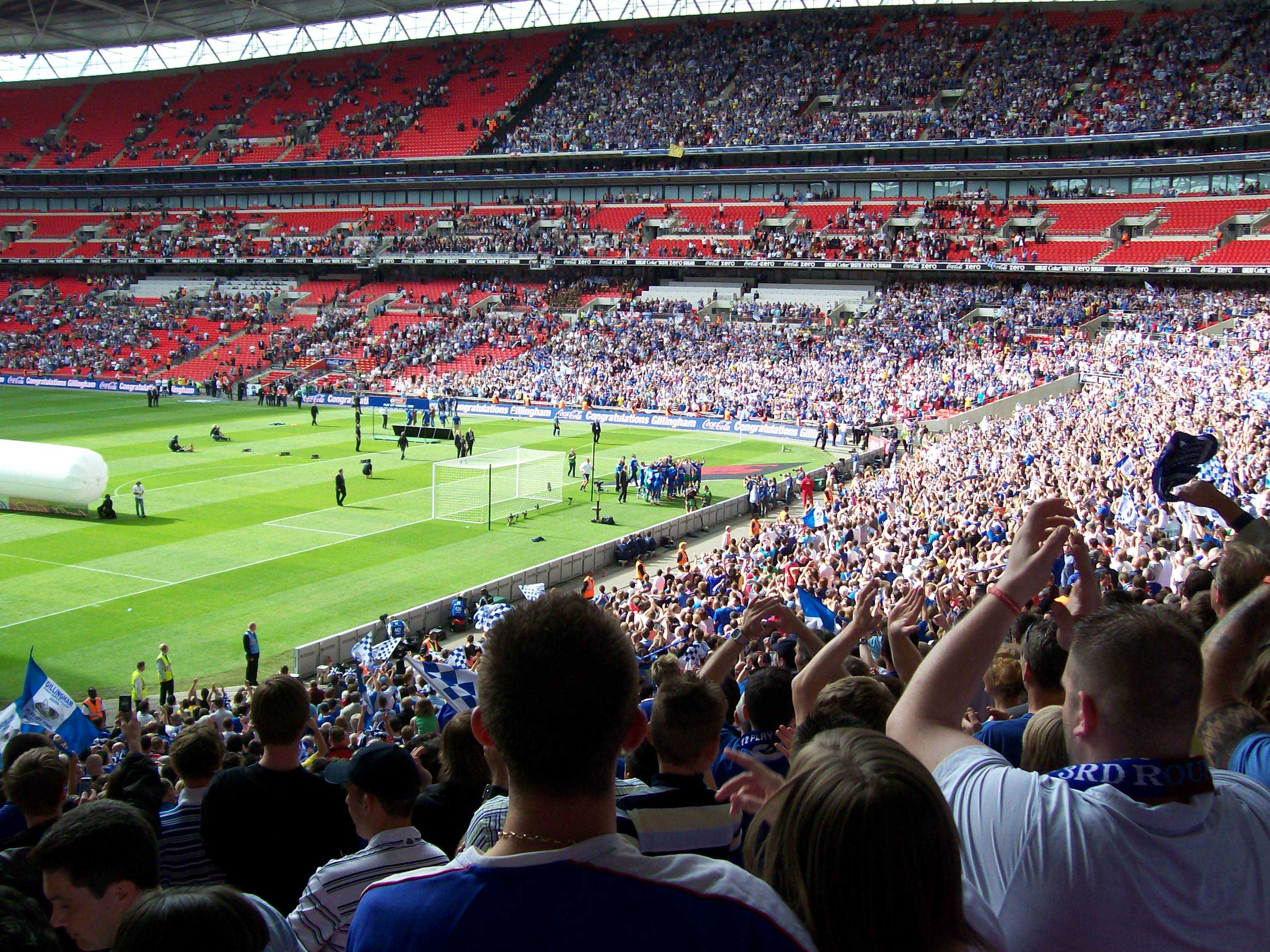 Gillingham F.C. fans celebrate at the 2009 Football League Two play-off Final. Photo by myself.